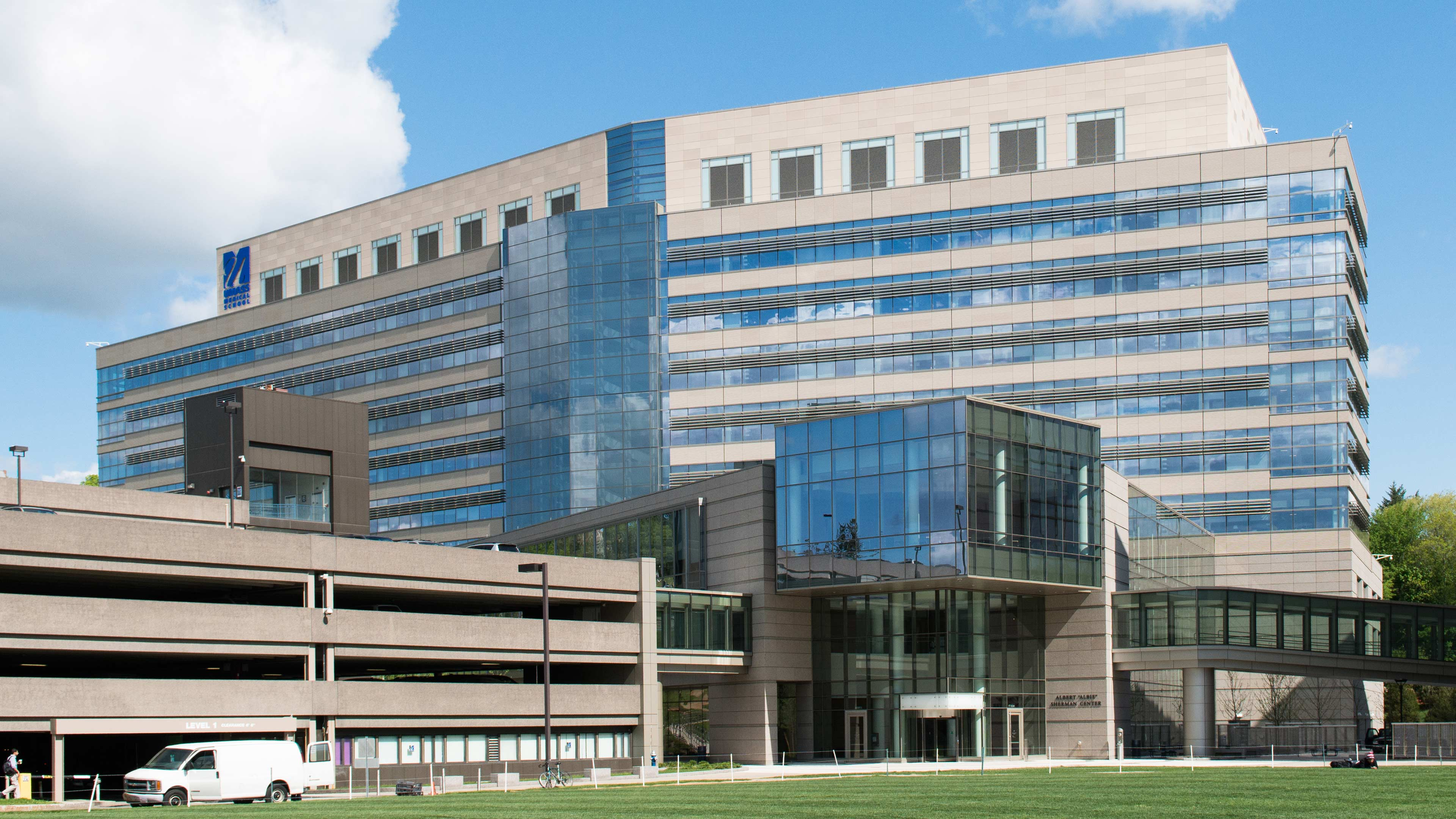 Albert Sherman Center. Home of the RNA Therapeutics Institute.